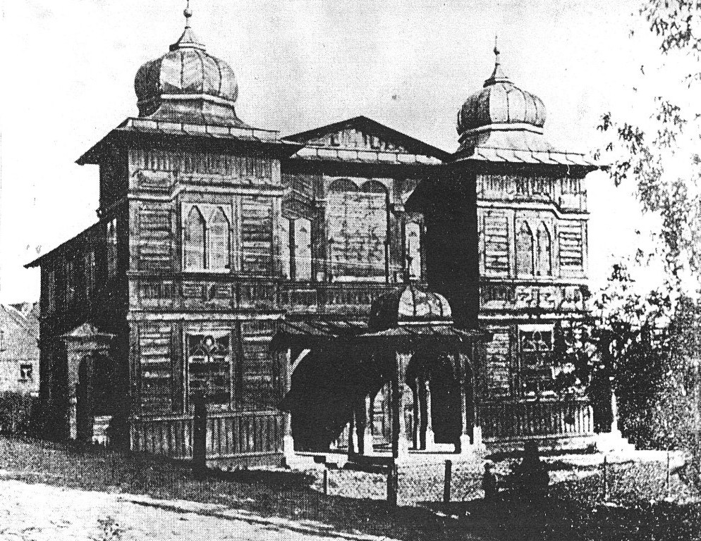 Synagogue in Sierpc (Poland)